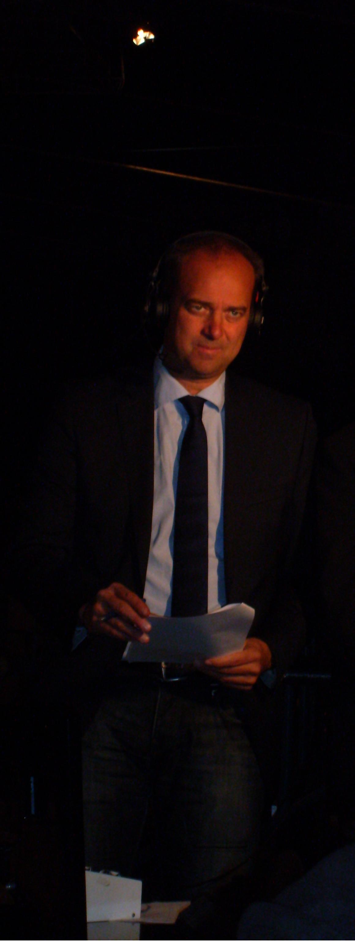 Per Forsberg, Swedish sport journalist